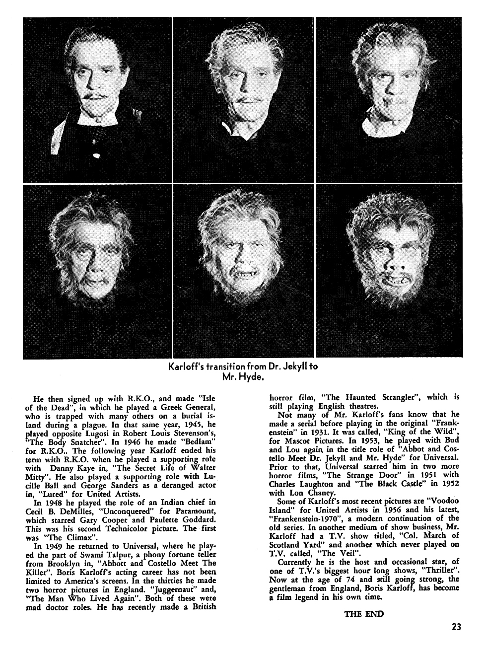 Pictorial on Boris Karloff from Mad Monsters number 6 page 24, depicting Karloff's transition from Jekyll to Hyde in 1953's Dr. Jeckyll and Mr. Hyde. Debuting in 1961, Mad Monsters was Charlton's answer to Famous Monster of Filmland. Each issue featured painted covers with black & white interiors running to around 70 pages.